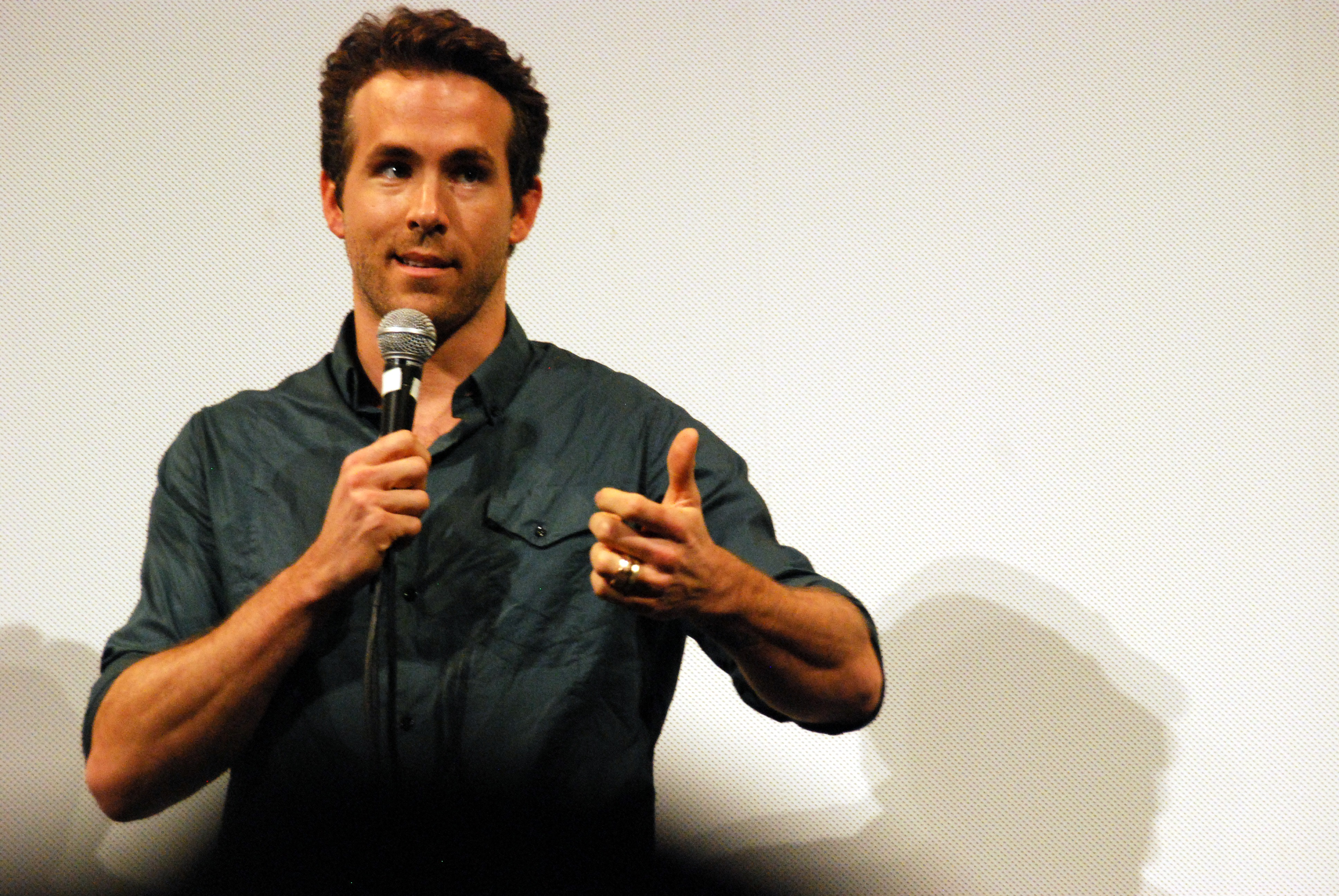 Ryan Reynolds Youtube